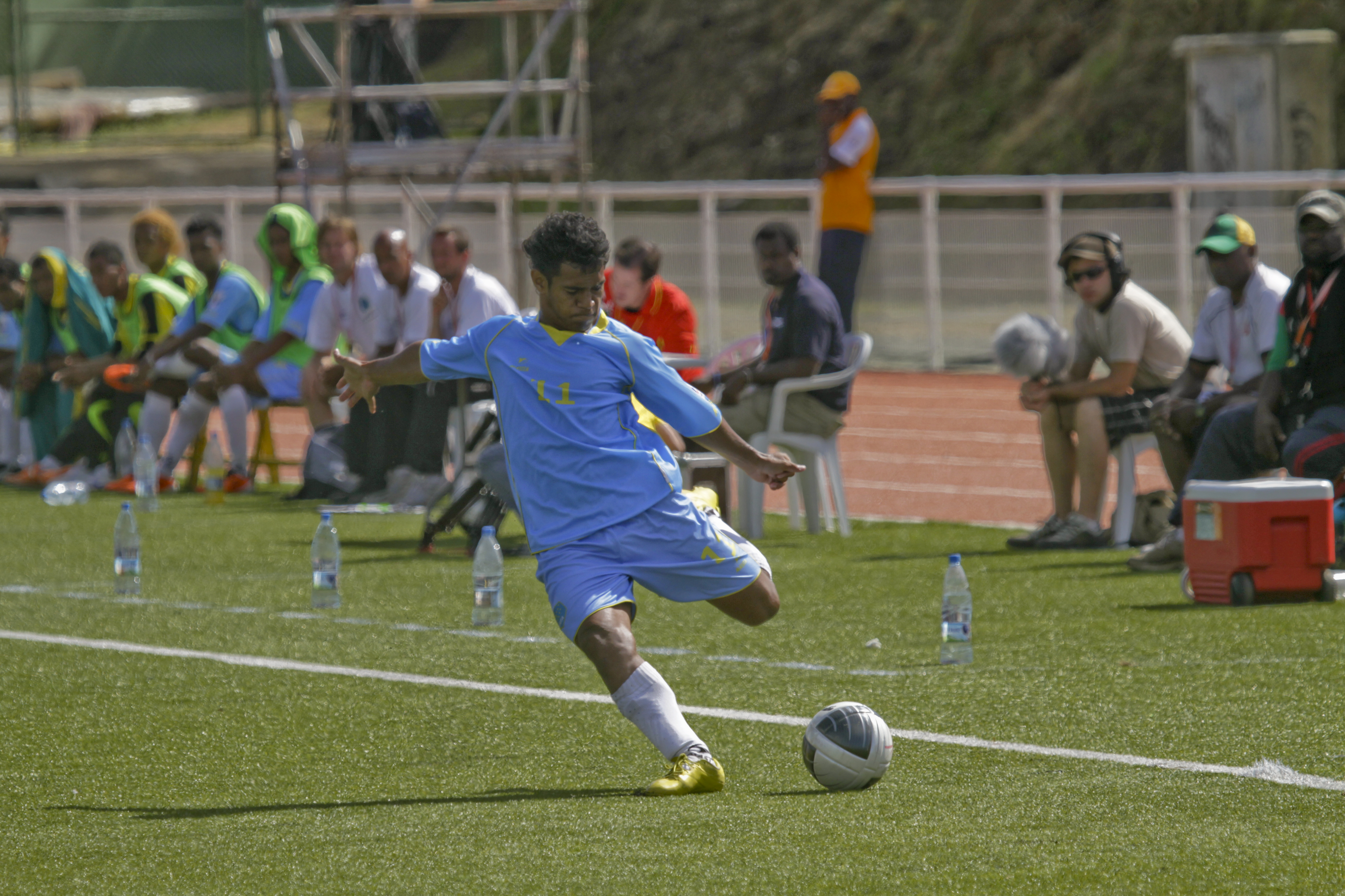 Panapa_02